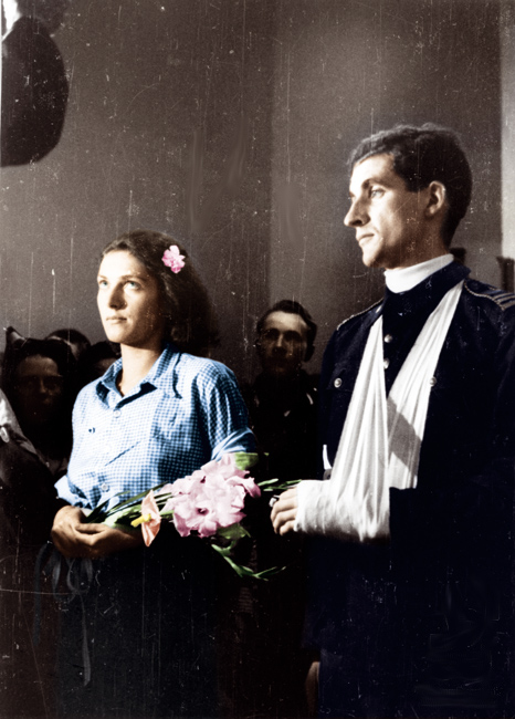 WarsawUprising: Wedding of nurse Alicja Treutler "Jarmuż" and cadet-officer Bolesław Biega "Pałąk", from "Kiliński" batalion, ministered by Wiktor Potrzebski "Corda" on August 13, 1944 in a temporary chapel on 11 Moniuszko Street. Photo was colorized.